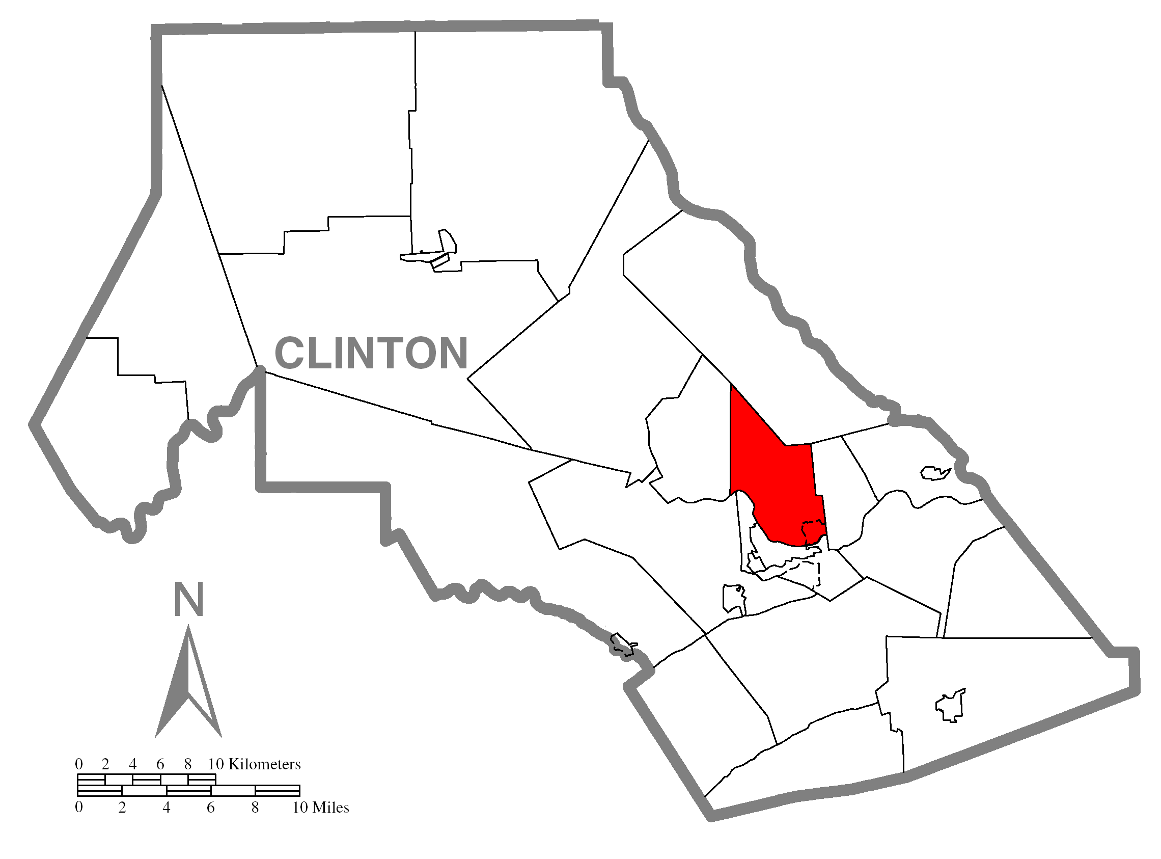 A map of Clinton County showing Woodward Township, Pennsylvania (alternate) highlighted on the map.